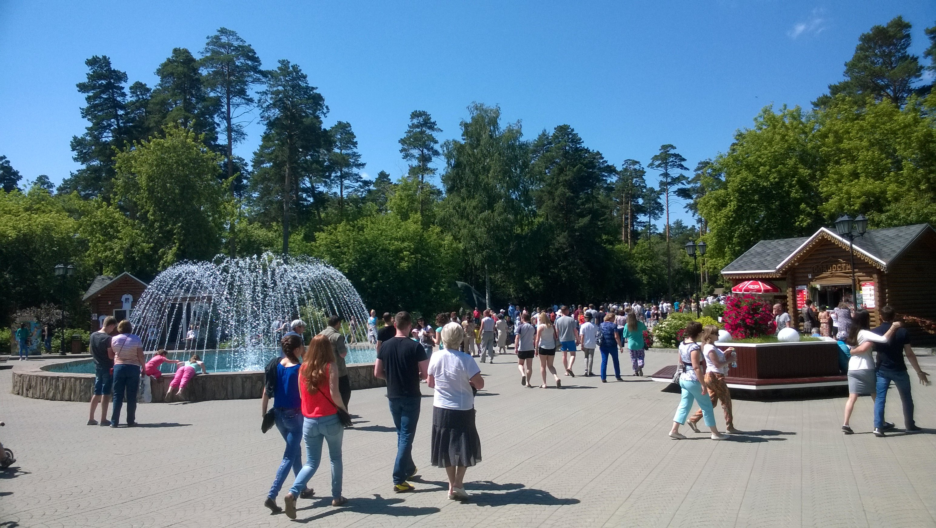 Zoo in Novosibirsk.